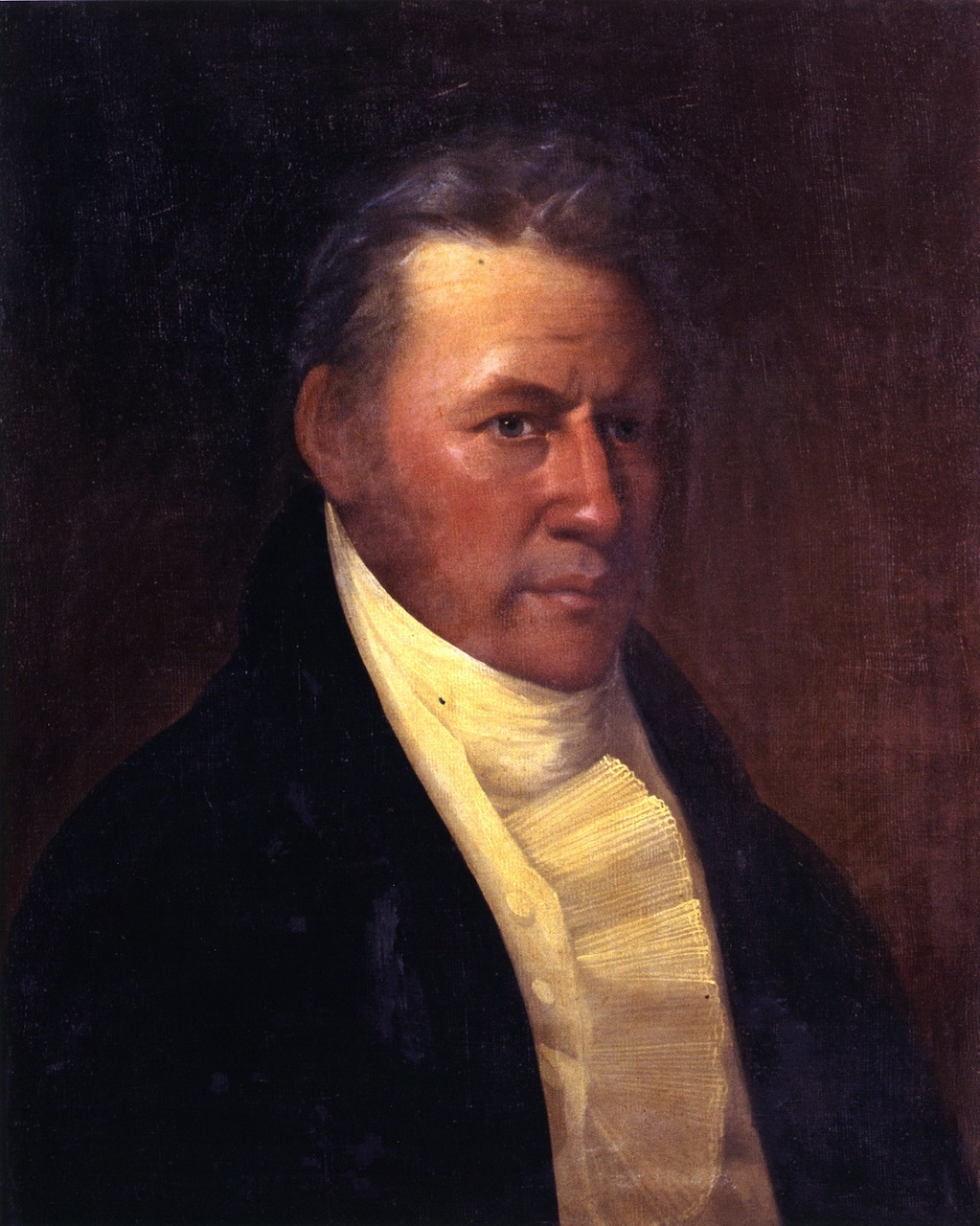 Abolitionist James G. Birney, painted by Asa Park (1790-1827) in 1818